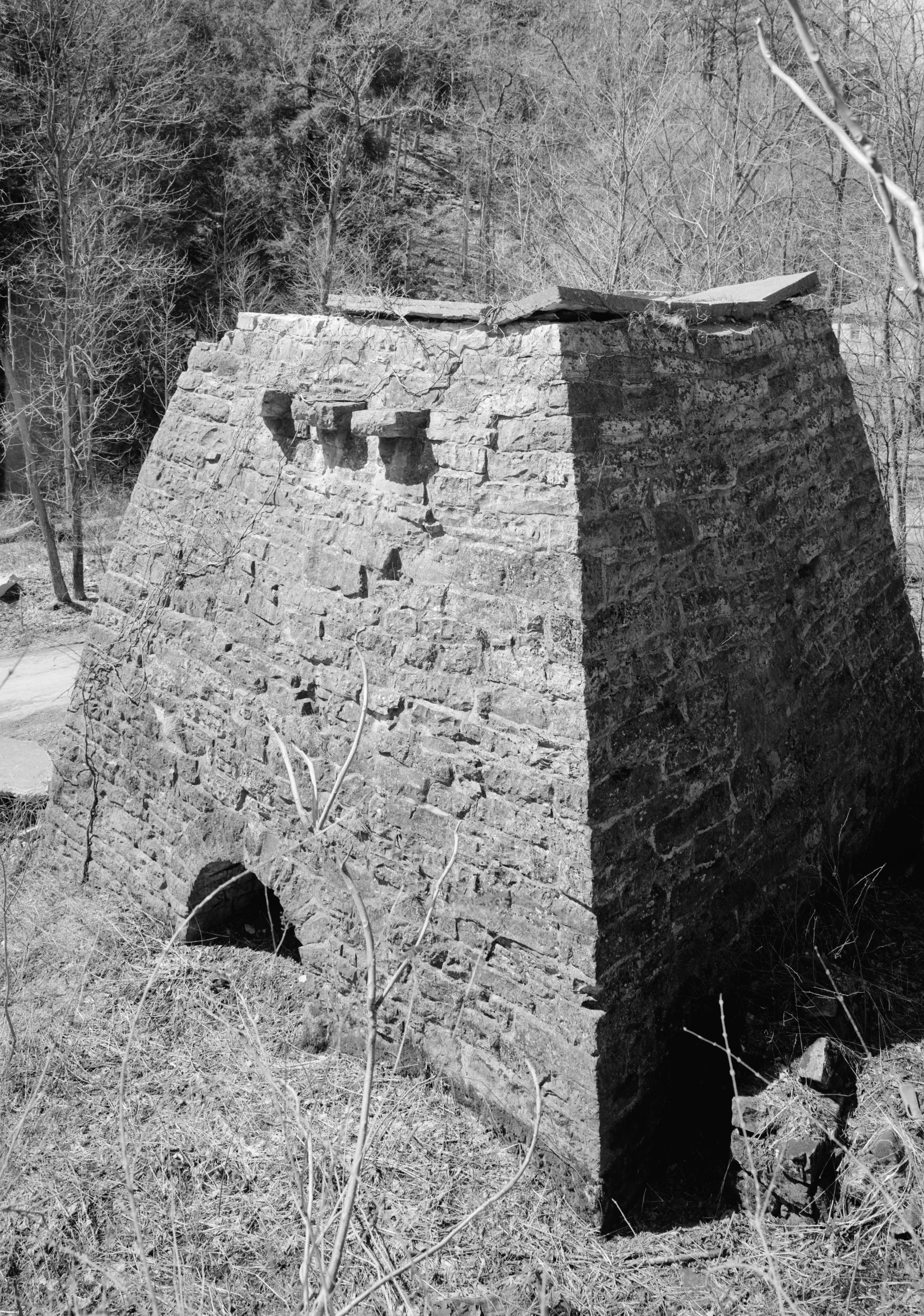 Front of the Etna Furnace, located north of Williamsburg in Catharine Township, Blair County, Pennsylvania, United States. Built in 1805, it is listed on the National Register of Historic Places.